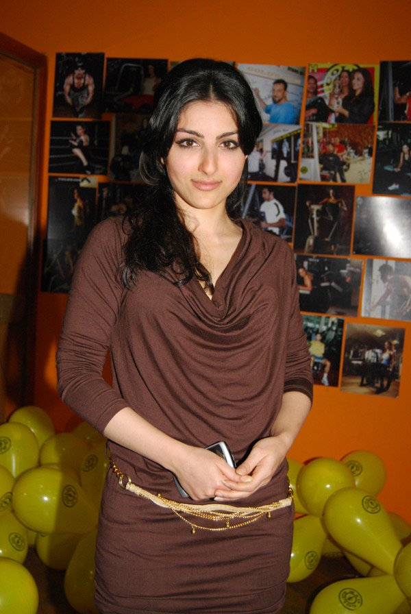 Gold's Gym launches its calendar on the eve of its 5th Anniversary